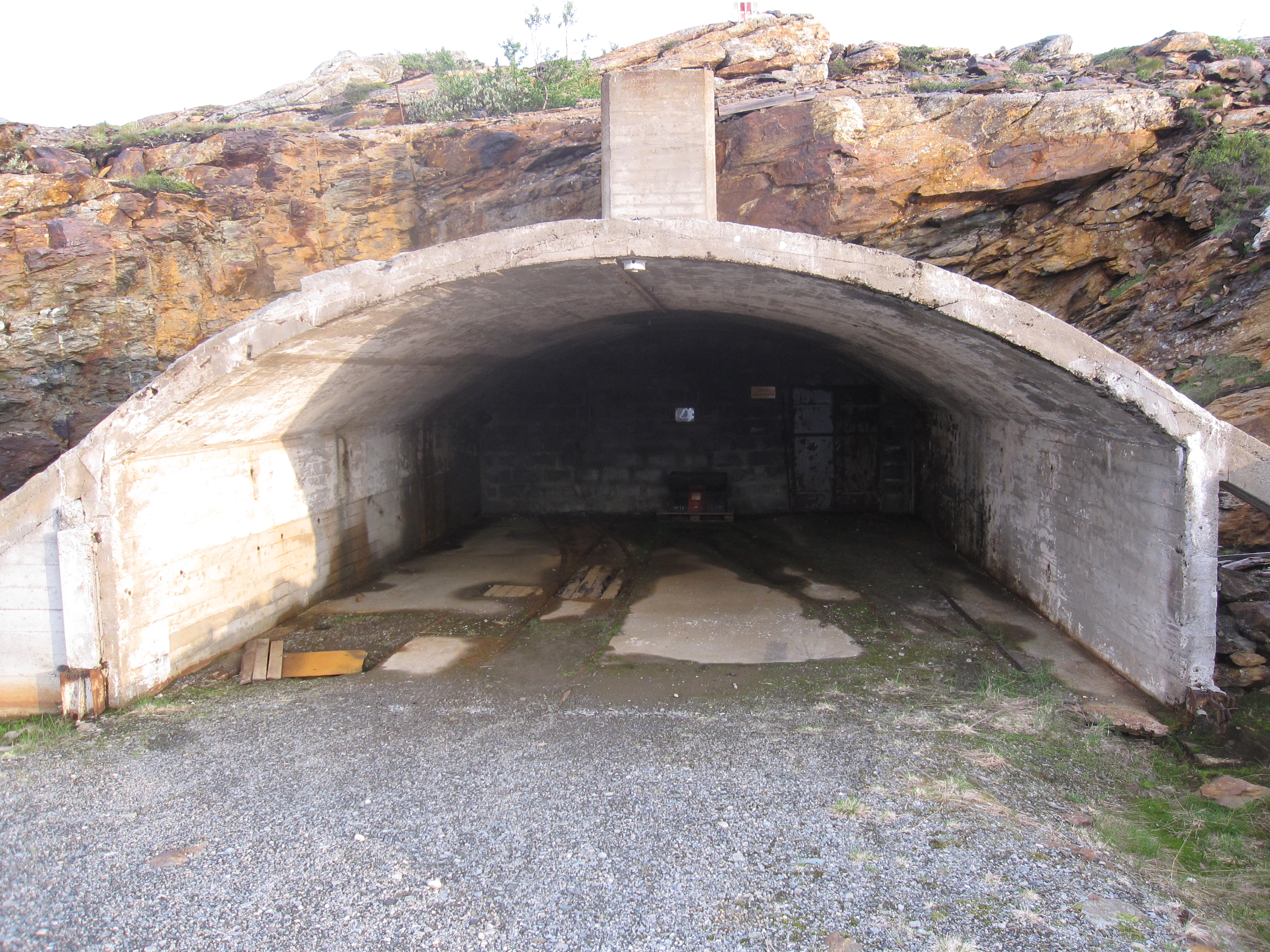 The entrance to the mines at Skorovas Gruver has been closed with brick and concrete. These mines were in operation from 1952 until May 1984, when falling prices forced Elkem to close them down.